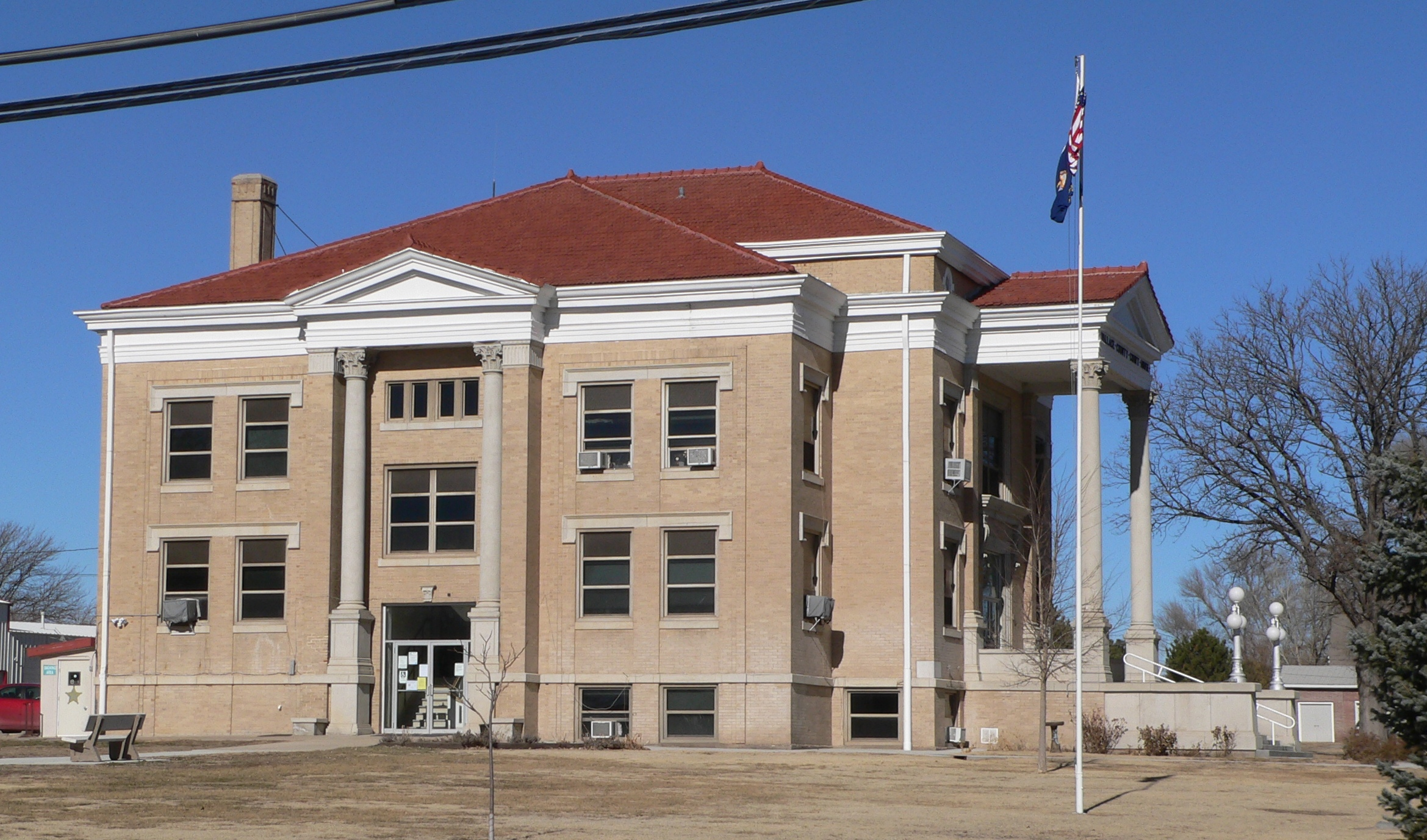 Wallace County Courthouse, located in Sharon Springs, Kansas; seen from the south. The building was constructed in 1914.